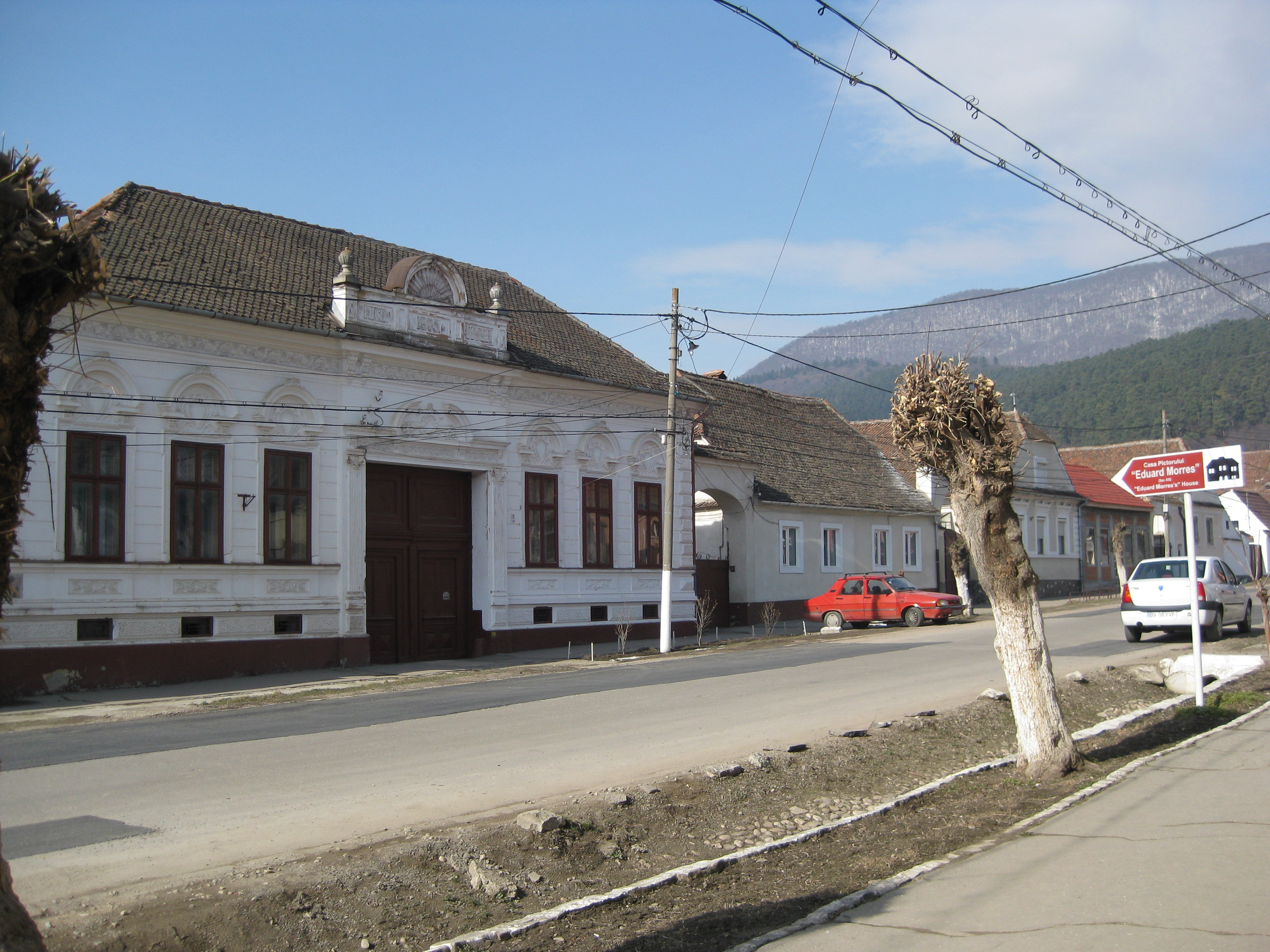 The hous from Eduard Morres in Codlea (Zeiden), Romania